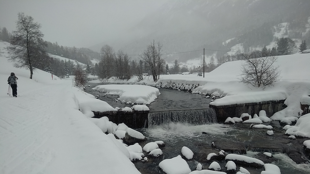 Evançon near Extrepieraz (Brusson, AO, Italy)